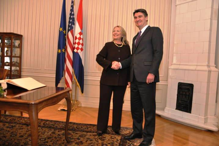 U.S. Secretary of State Hillary Rodham Clinton shakes hands with Croatian Prime Minister Zoran Milanovic before their meeting in Zagreb, Croatia, October 31, 2012. [State Department photo/ Public Domain]